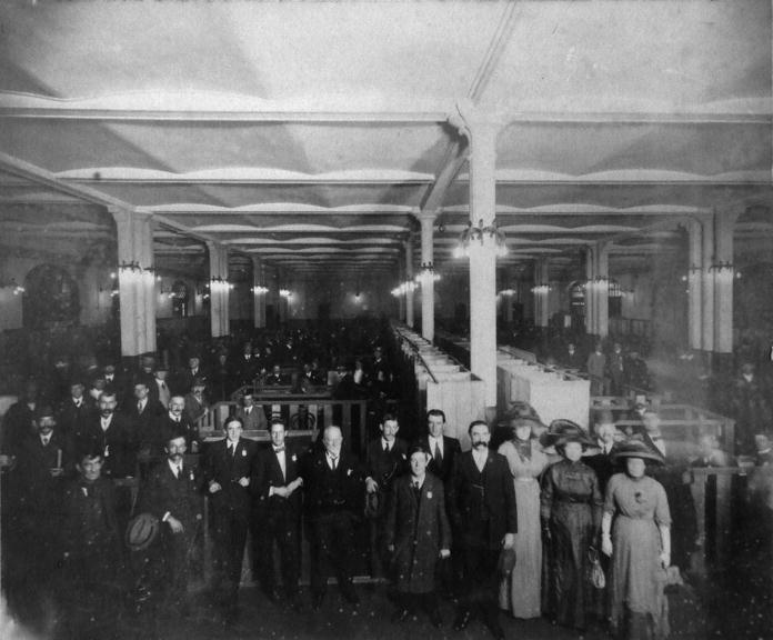 View showing men and women voters and polling booths, June 1910.